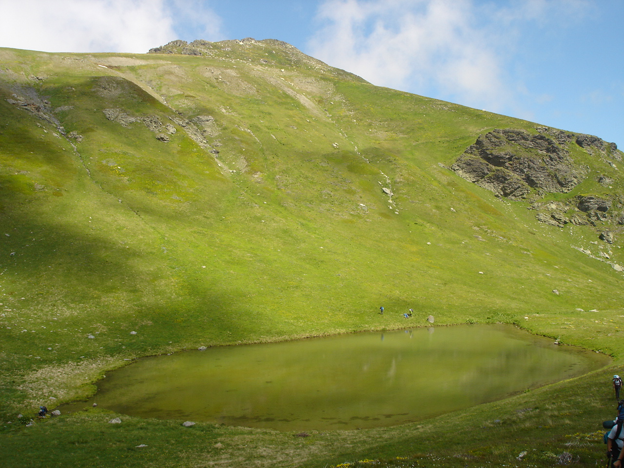 Skakalichko Lake on Šar Mountain, Macedonia